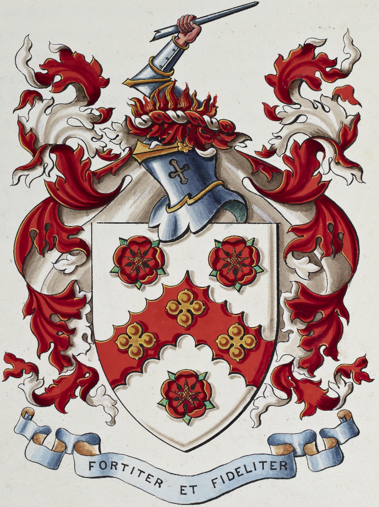 1917 copy confirmation of Whyte arms (Dublin: National Library of Ireland, Genealogical Office: Ms.111B, fol.46) Arms of Whyte of Newtown Manor, Country Leitrim, Ireland: Argent, on a chevron engrailed gules between three roses of the last barbed and seeded proper as many quatrefoils or. Confirmed in 1917 by George Dames Burtchaell (d.1921), Athlone Pursuivant of Arms of all Ireland, Deputy Ulster King of Arms and Principal Herald of all Ireland. Confirmed to him and to all descendants of his great-grandfather James I Whyte of Dawlish in Devon and formerly of Cookstown, County Meath, Ireland (son of Mark Whyte of Dublin)